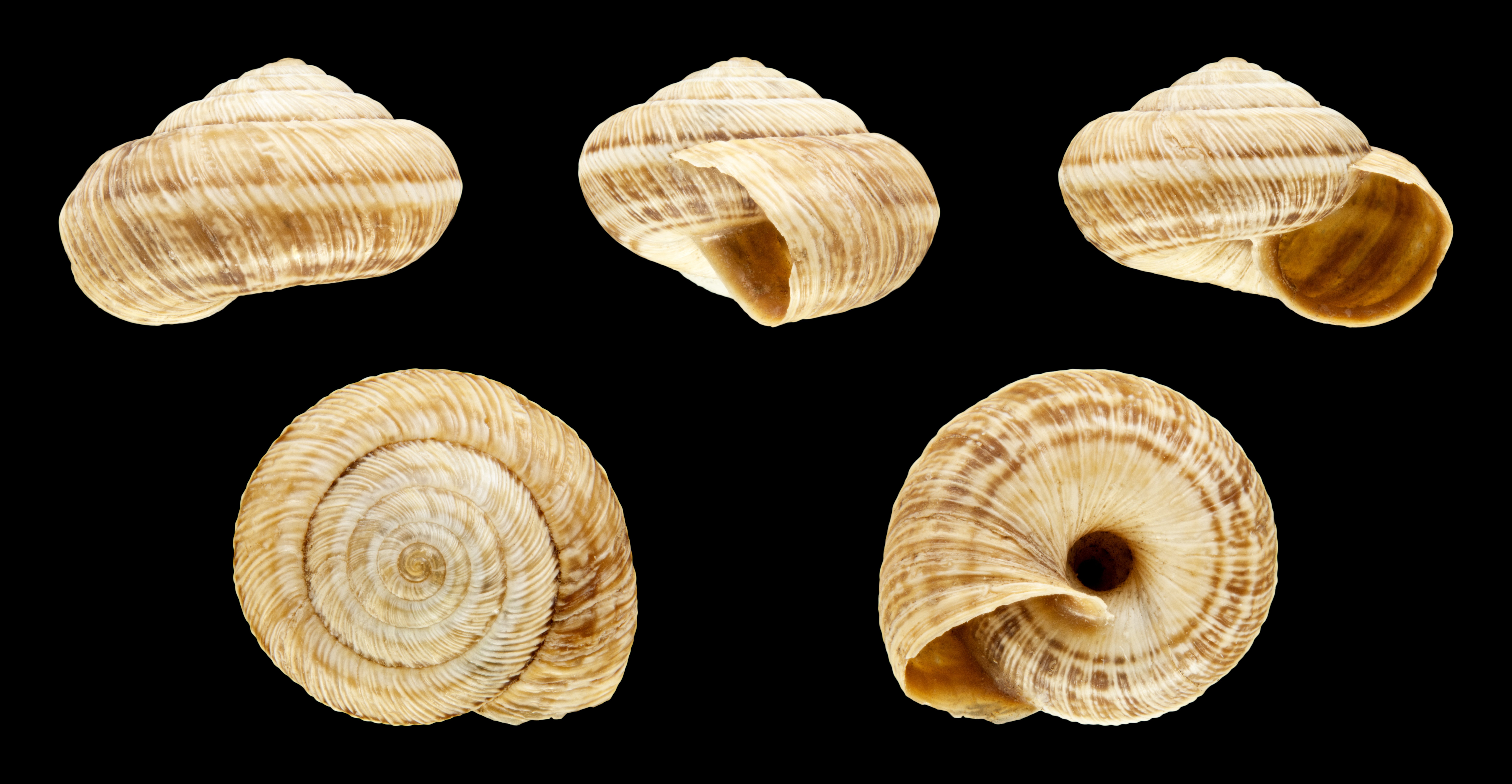 Cernuella cisalpina (Rossmässler, 1837), Maritime Gardensnail; Diameter 1.2 cm; Originating from Lazise, Italy. Shell of own collection, therefore not geocoded.